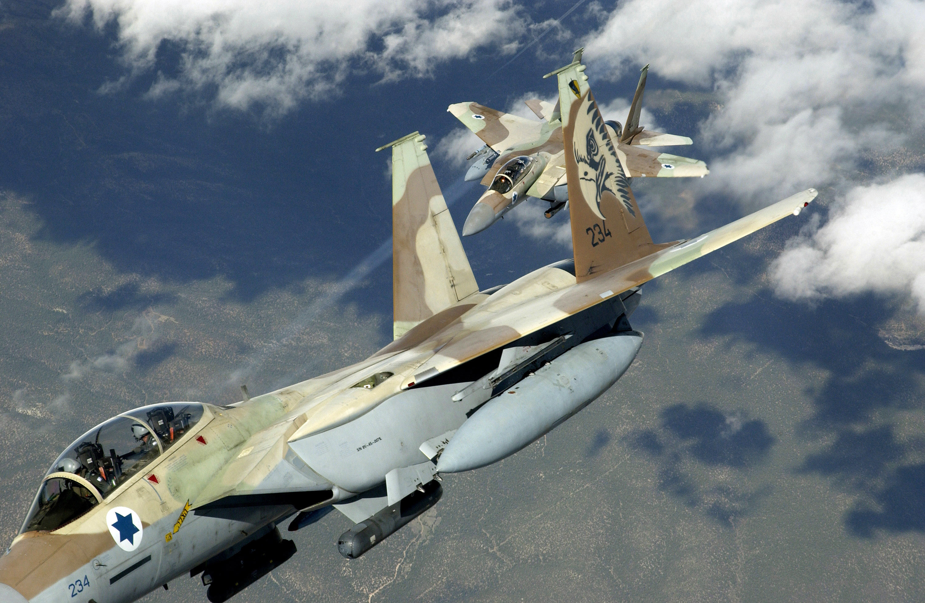 Two Israeli Defense Force-Air Force F-15I Ra'am aircraft practice air defense maneuvers mission over the Nevada Test and Training Ranges, at Nellis Airforce Base (AFB), Nevada (NV), during Exercise Red Flag 04-3. Exercise Red Flag is a realistic combat training exercise involving the Air Forces of the US and its Allies. Location: NELLIS AIR FORCE BASE, NEVADA (NV) UNITED STATES OF AMERICA (USA)